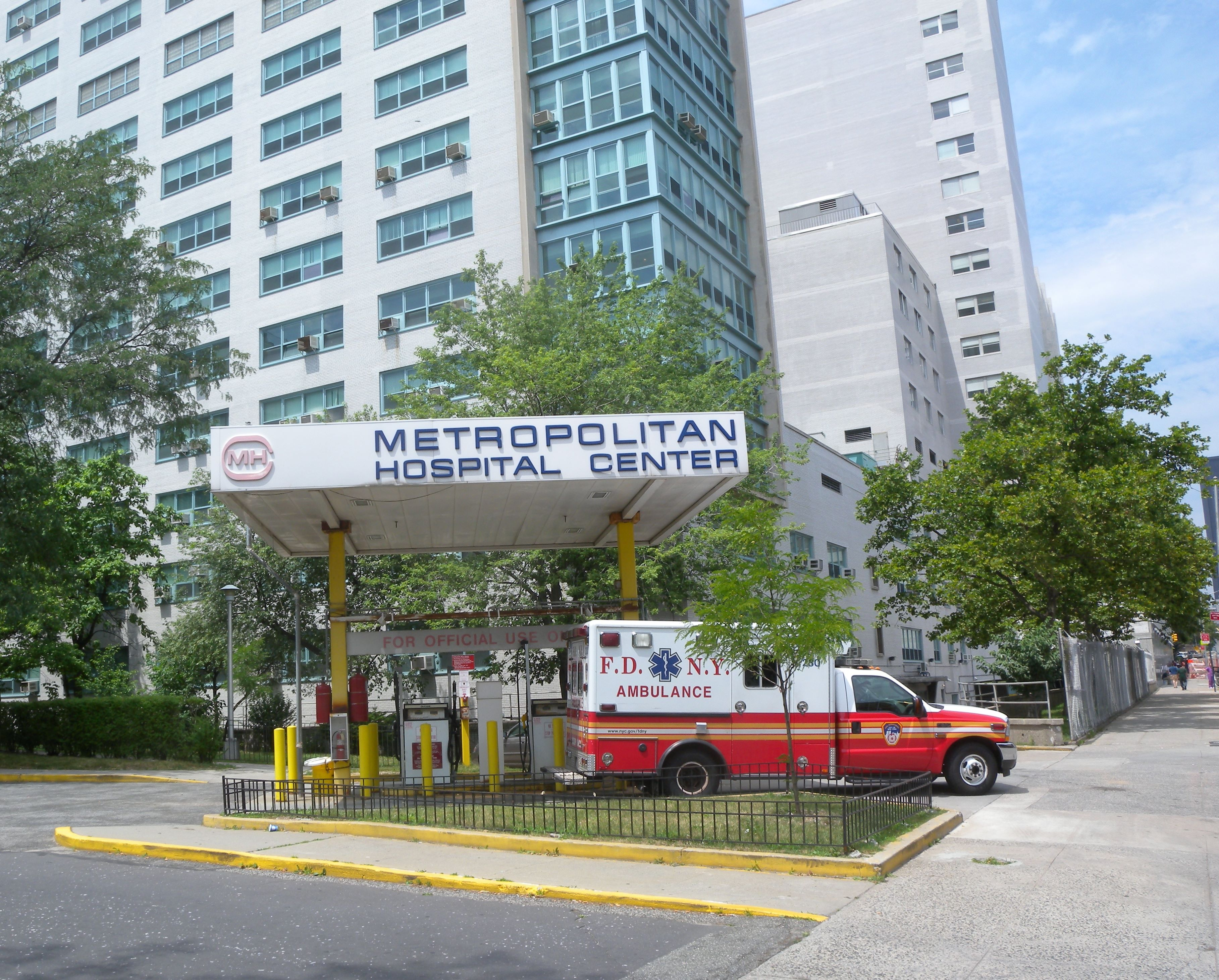 Looking west at Metropolitan Hospital Center with ambulance at fuel station on East 99th Street on a mostly sunny midday.